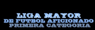 LIGAS ADFAS